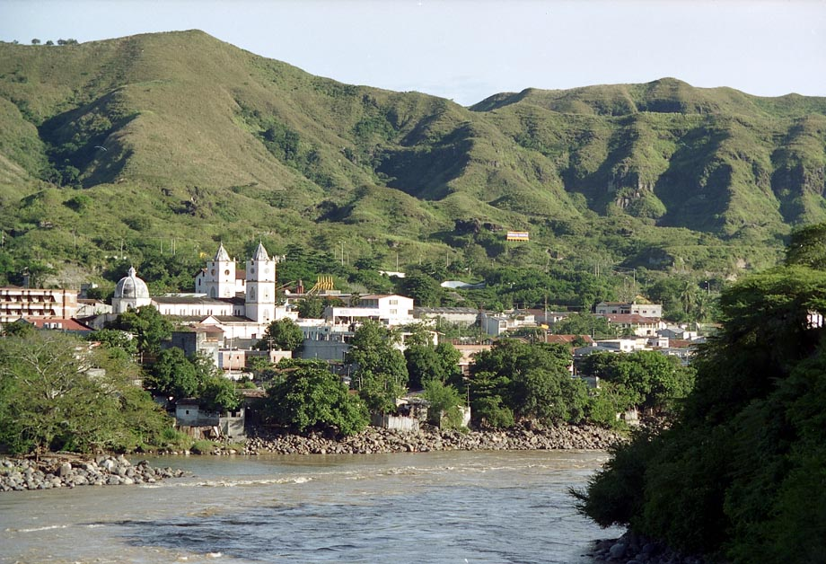 This is a view of Honda, Tolima with the Rio Magdelena in the foreground, taken in 1996. The image was scanned from a 35mm negative and then edited with photoshop 7.0.